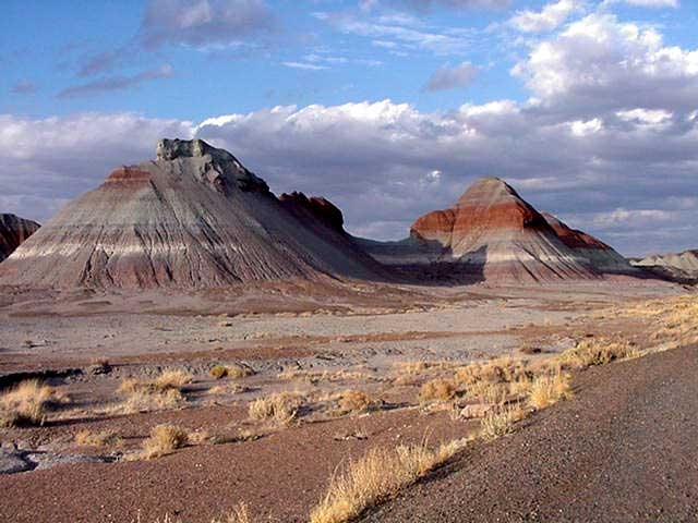 Blue Mesa region of the Painted Desert — in Petrified Forest National Park, Arizona.